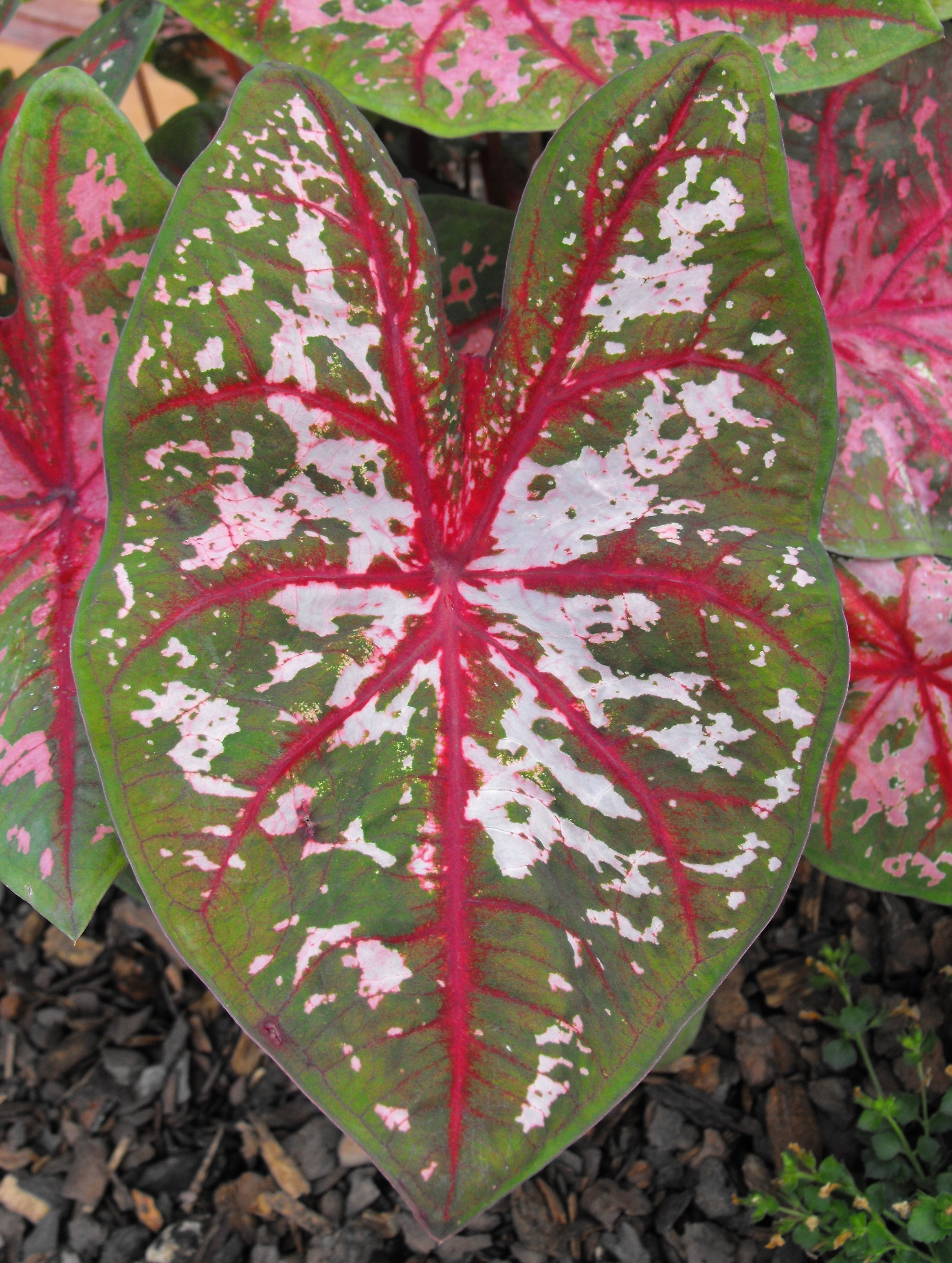 Caladium sp. on display at the San Diego County Fair, California, USA. Identified by exhibitor's sign.